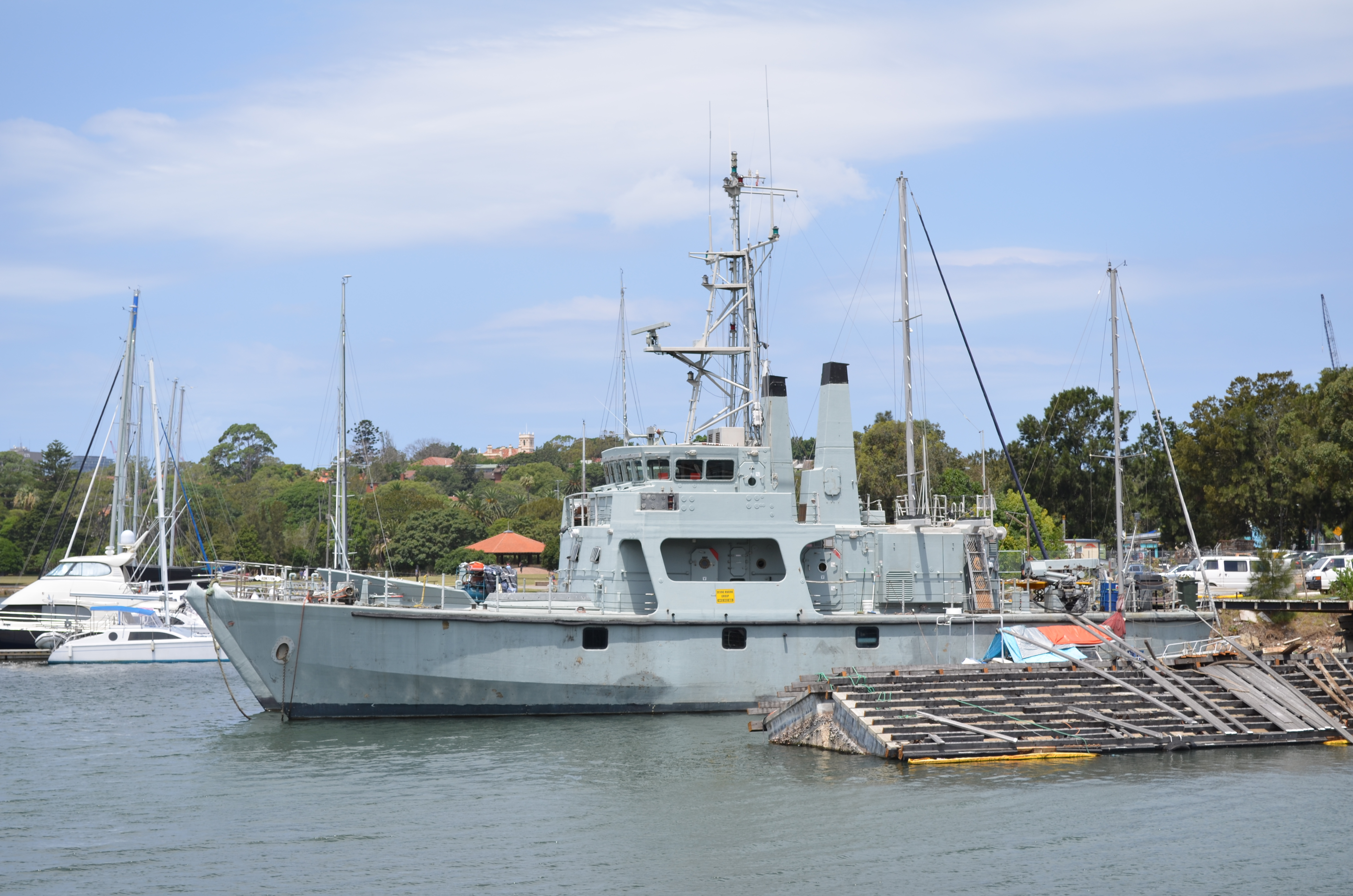 The former Australian minesweeper HMAS Rushcutter, berthed in Rozelle Bay, New South Wales